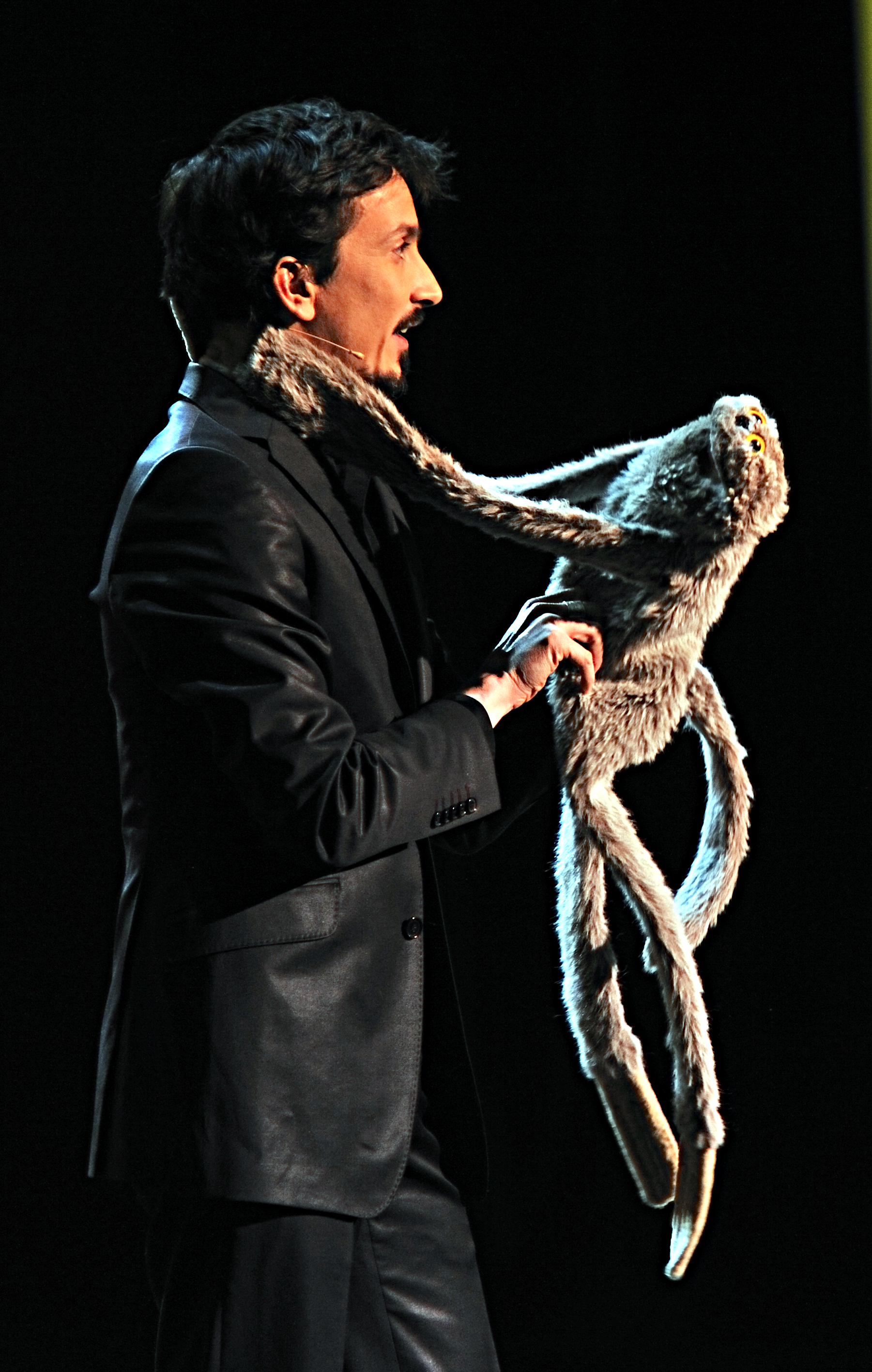 Arnaud Tsamere at the Montreux Comedy Festival on 2 December 2010.